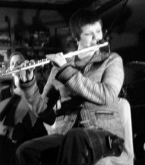 Julia Zemlianaya, ex-flutist of Flëur